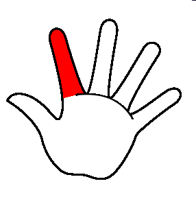 Black and white outline of left hand